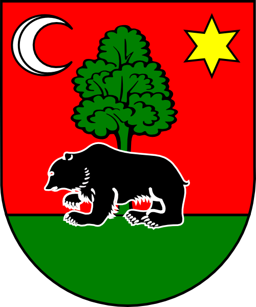 Coat of arms (shield only) of János Vályi (Йоан Валій), bishop (eparch) of Prešov, Slovakia (1882 - 1911).